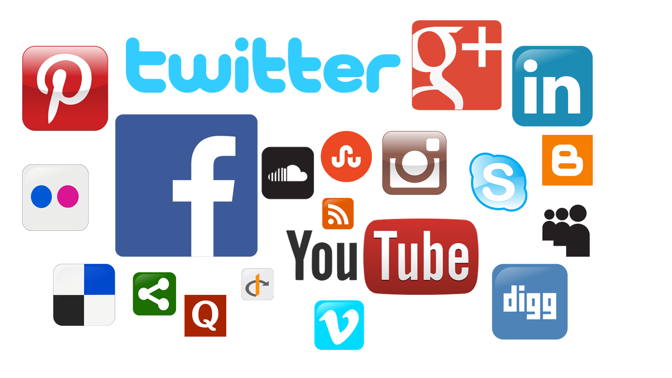 Social media icons collection